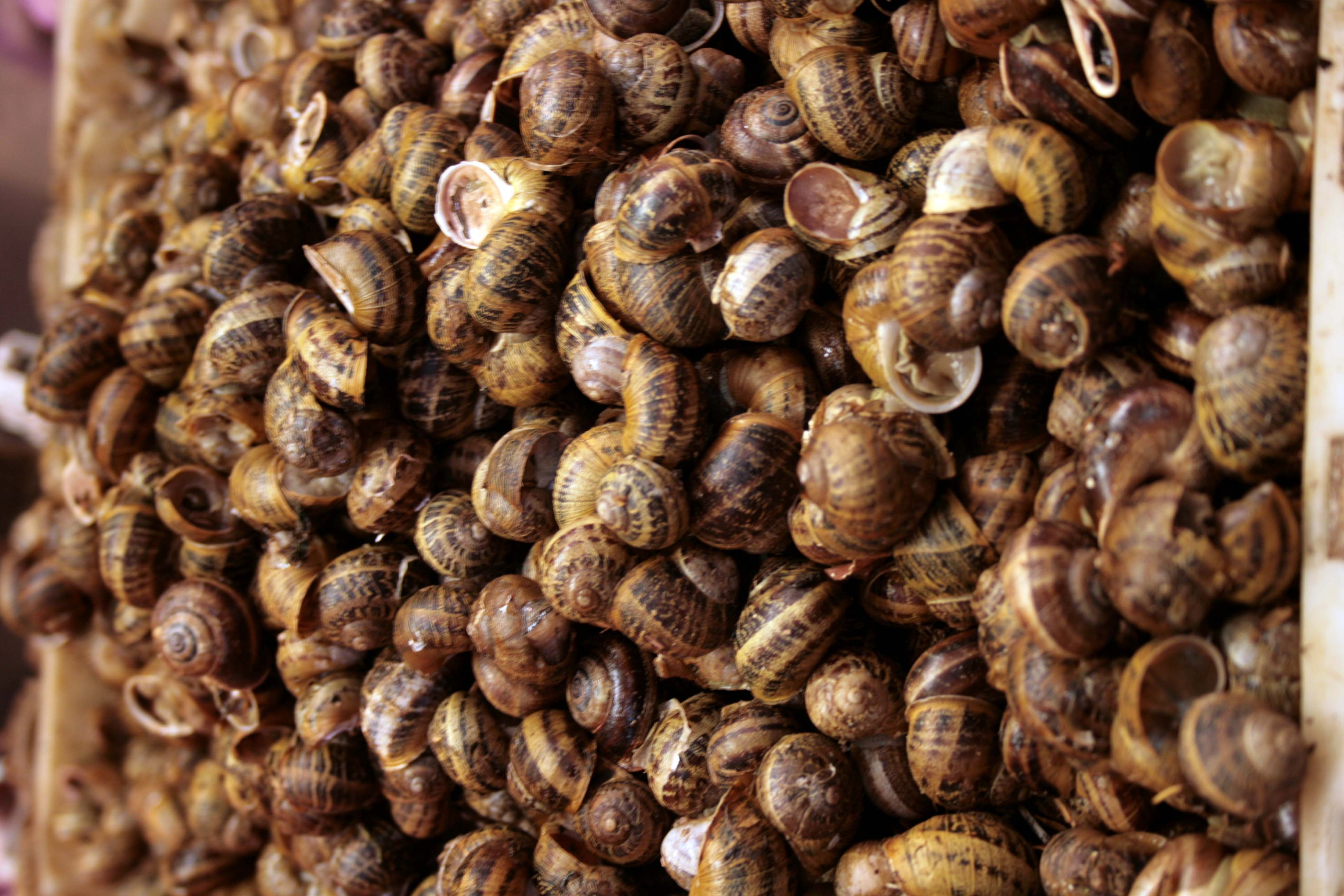 caracoles Helix aspersa, determined 04 June 2011 by Francisco Welter-Schultes